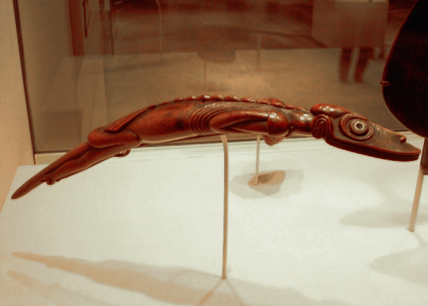 Lizardman Figure (Moko), 19th cent, Wood, obsidian, bone, 5.8 x 48.9 cm. Moko, Collection of the MET